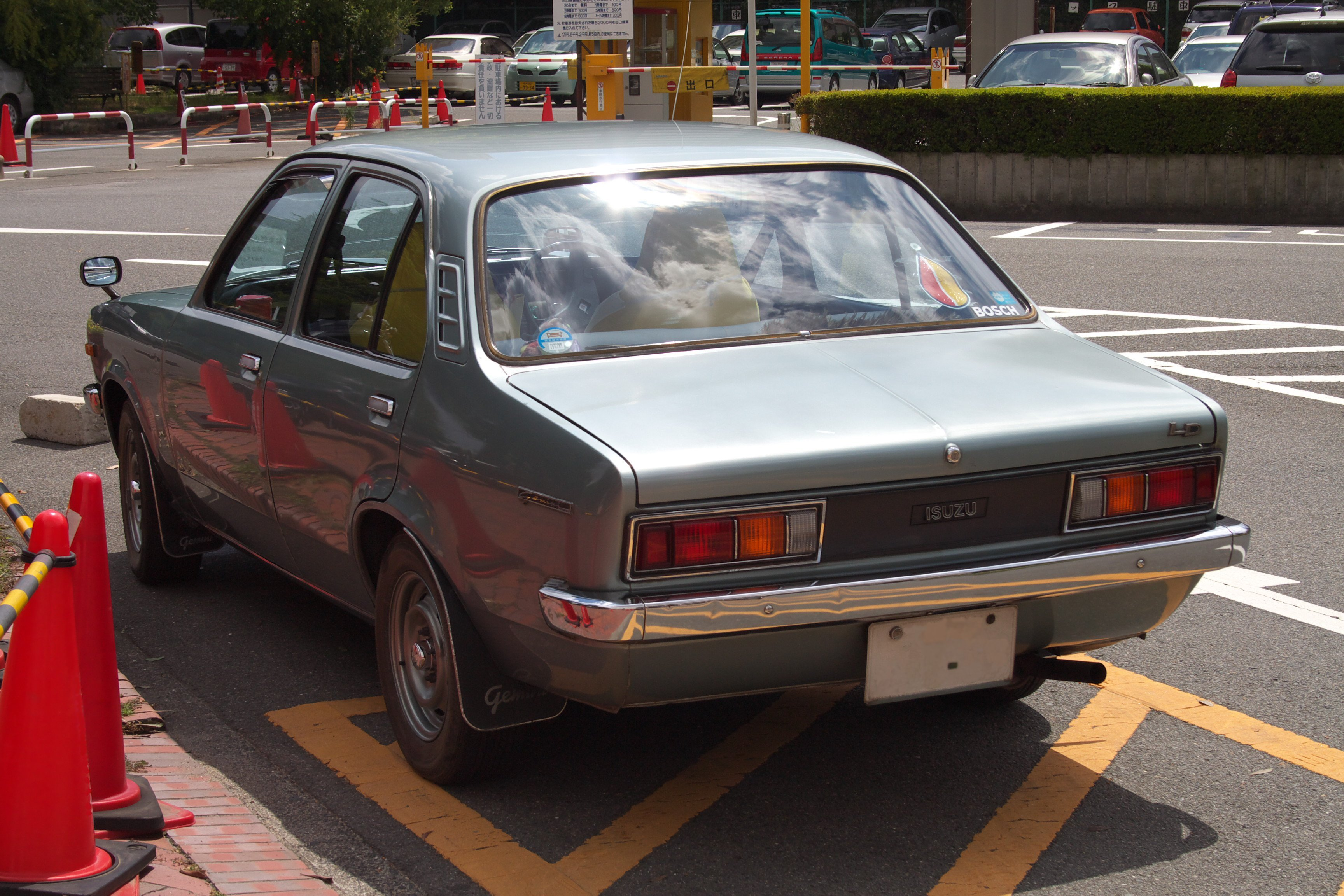 Isuzu Gemini?, photographed in Osaka City,Japan.